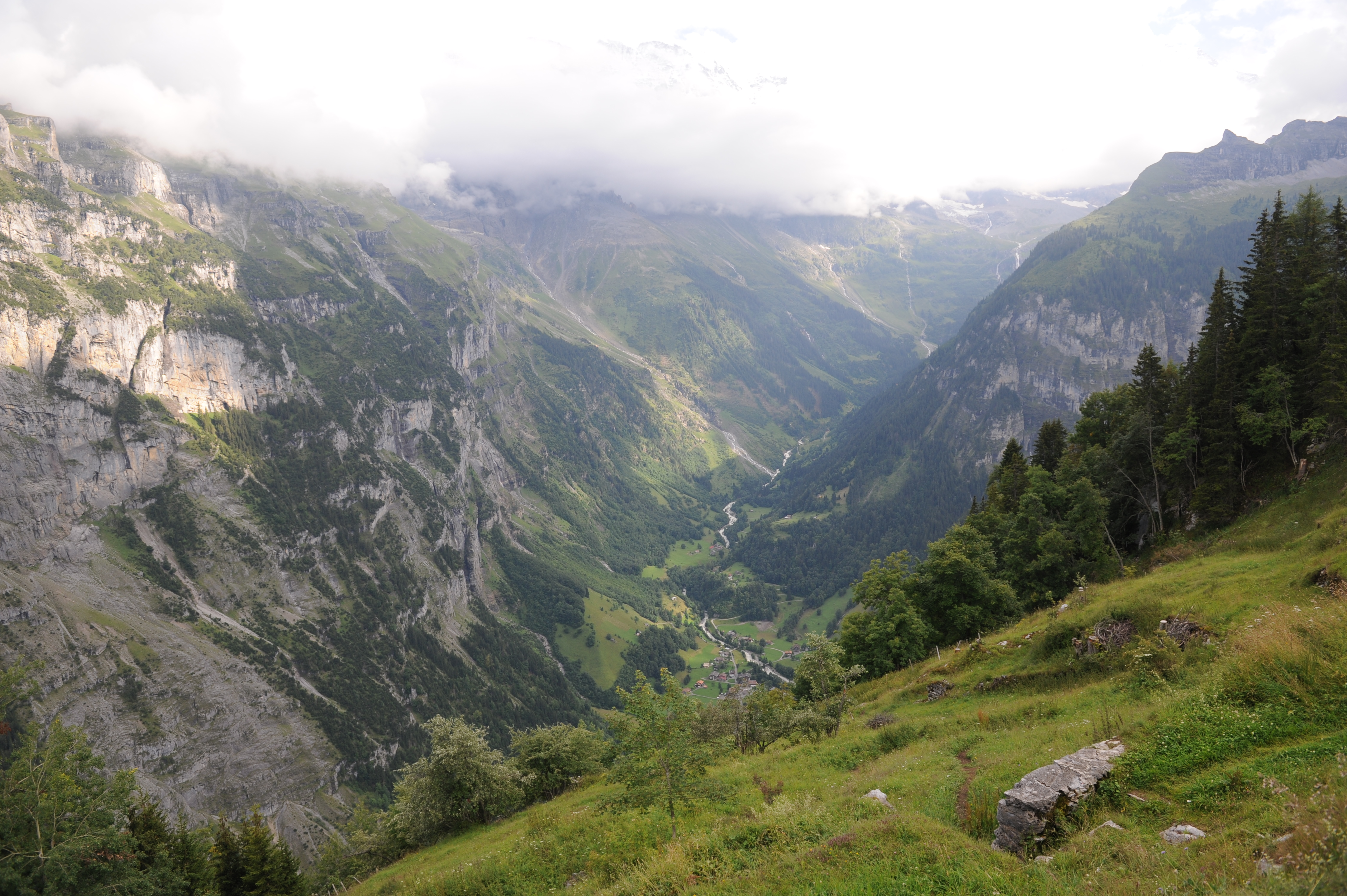 Alps Switzerland, (Mürren ?, Berner Oberland